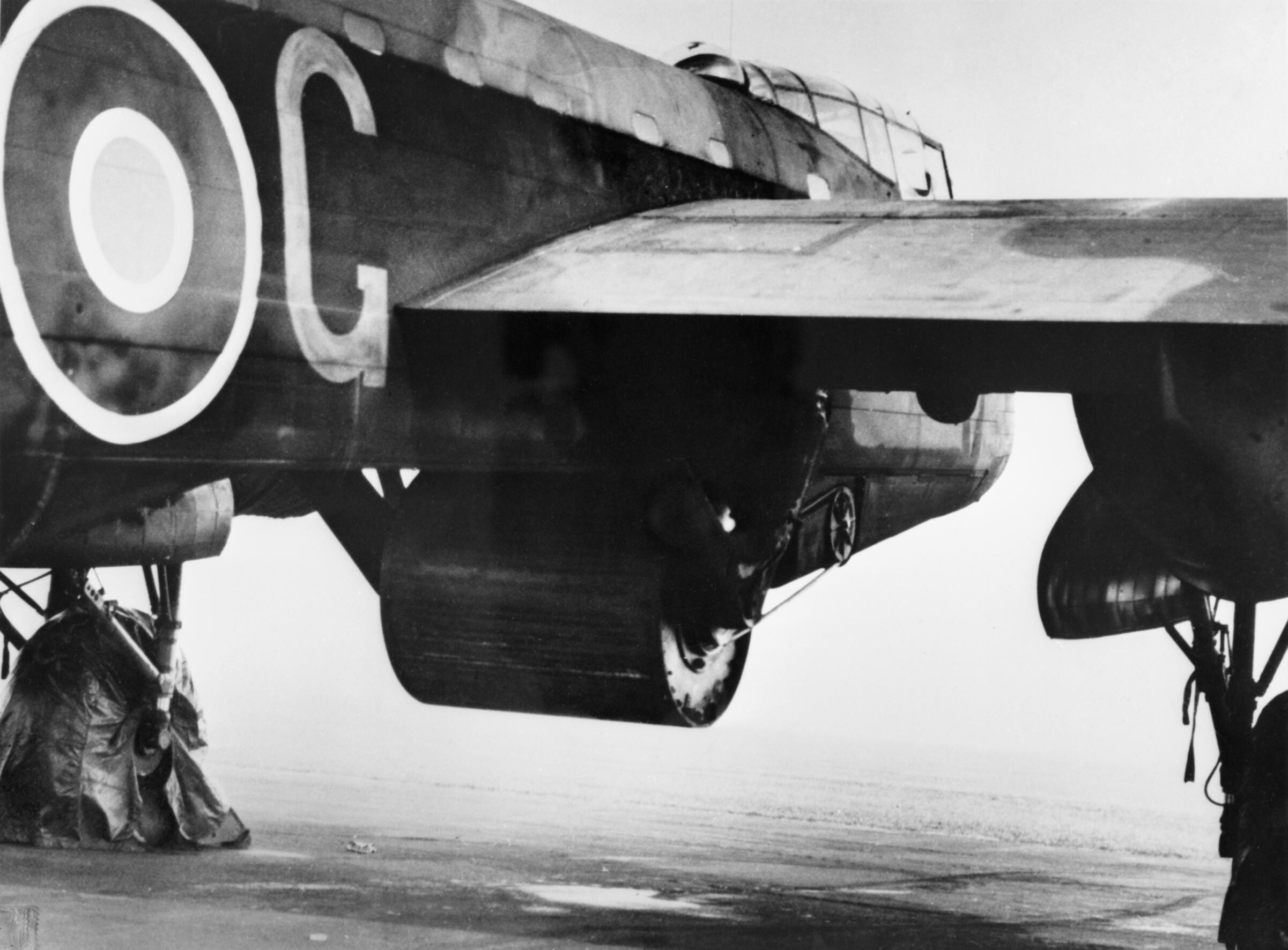 Operation CHASTISE: the attack on the Moehne, Eder and Sorpe Dams by No. 617 Squadron RAF on the night of 16/17 May 1943. A practice 10.000 lbs 'Upkeep' weapon attached to the bomb bay of Wing Commander Guy Gibson's Avro Type 464 (Provisioning) Lancaster, ED932/G 'AJ-G', at Manston, Kent, while conducting dropping trials off Reculver.